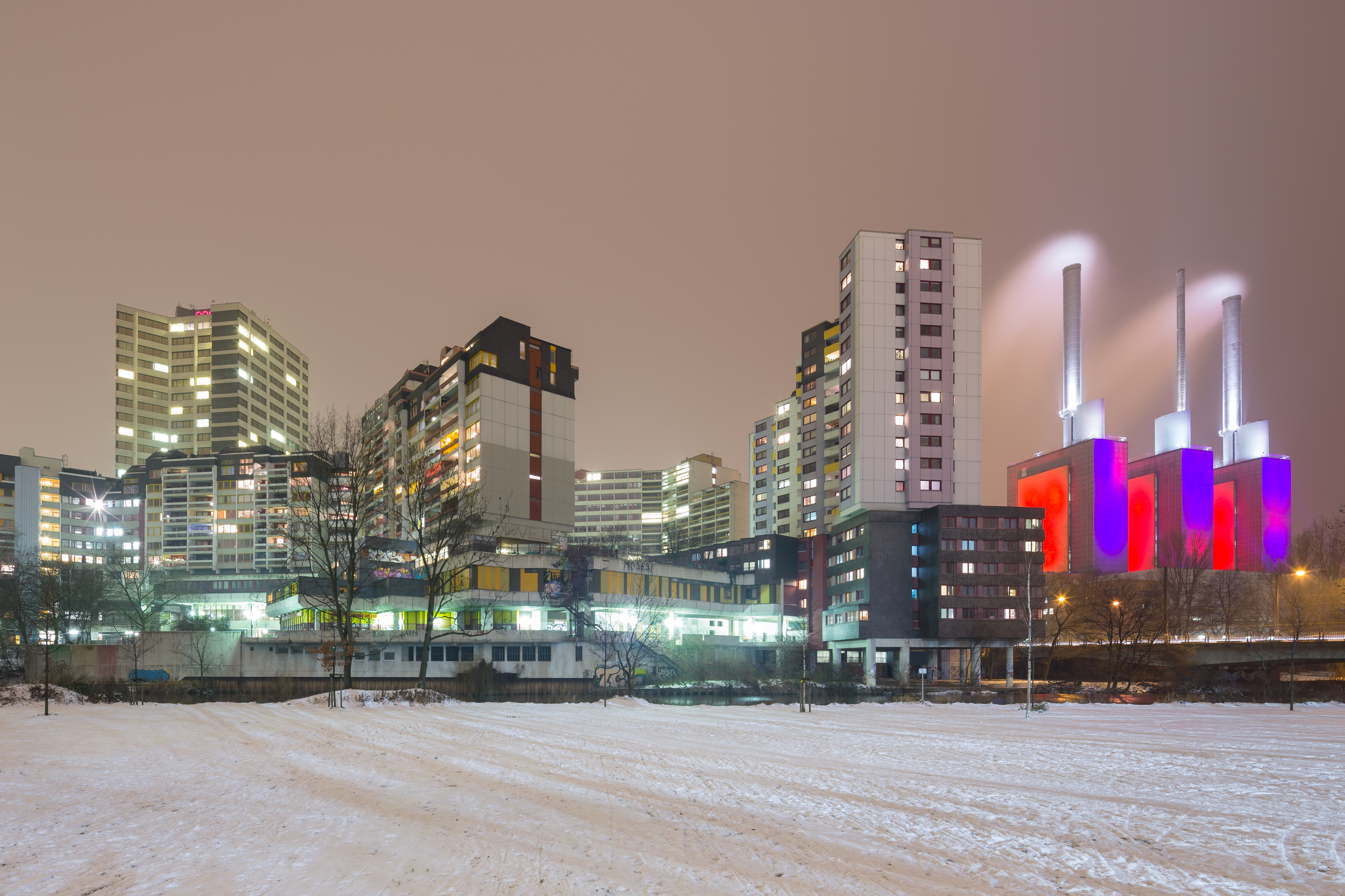 Apartment complex "Ihme-Zentrum" located in Linden-Mitte district of Hannover, Germany. The picture shows the northern facades with the Linden power plant to the right. Ihme river runs in front of the buildings.